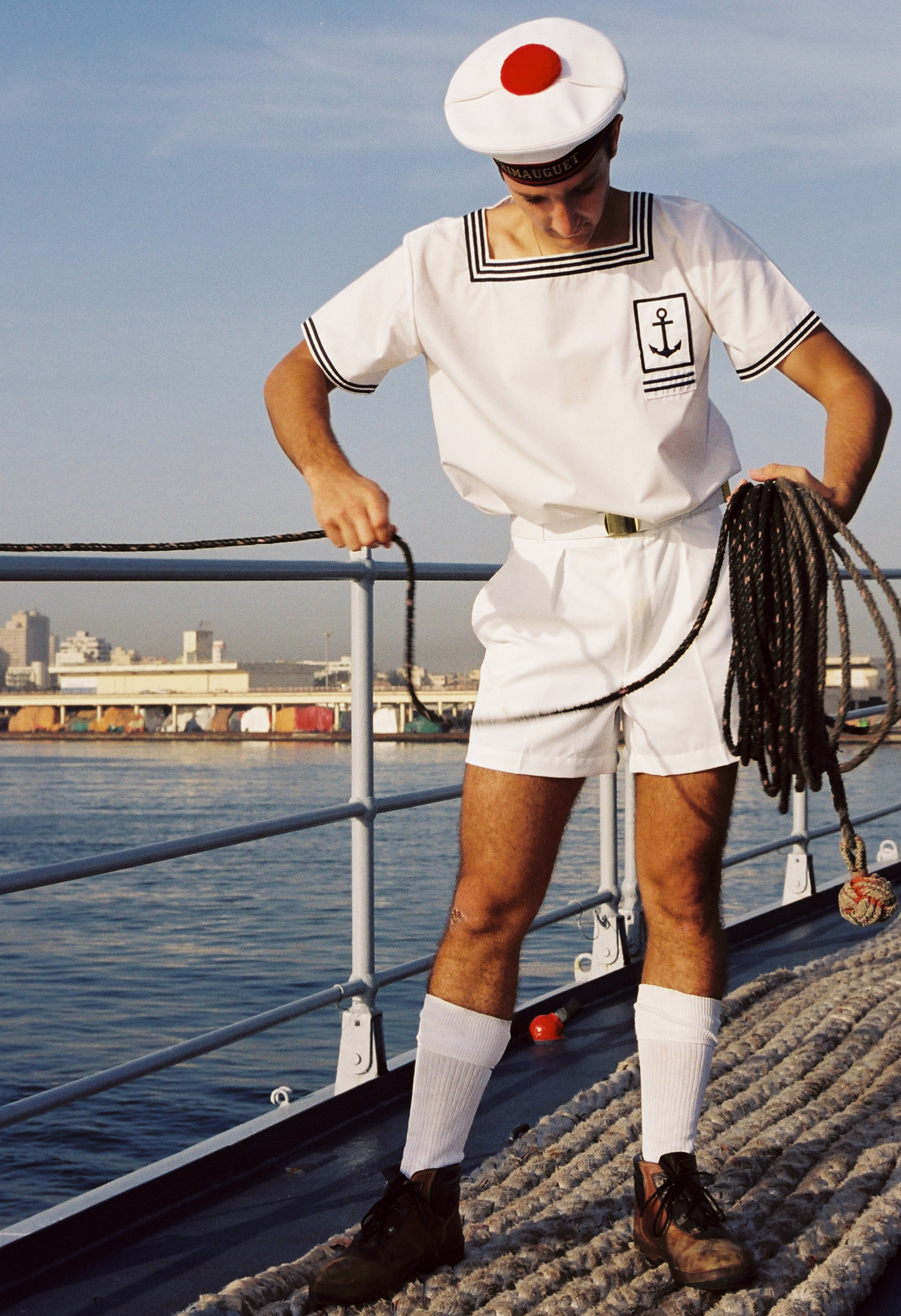 French seaman.